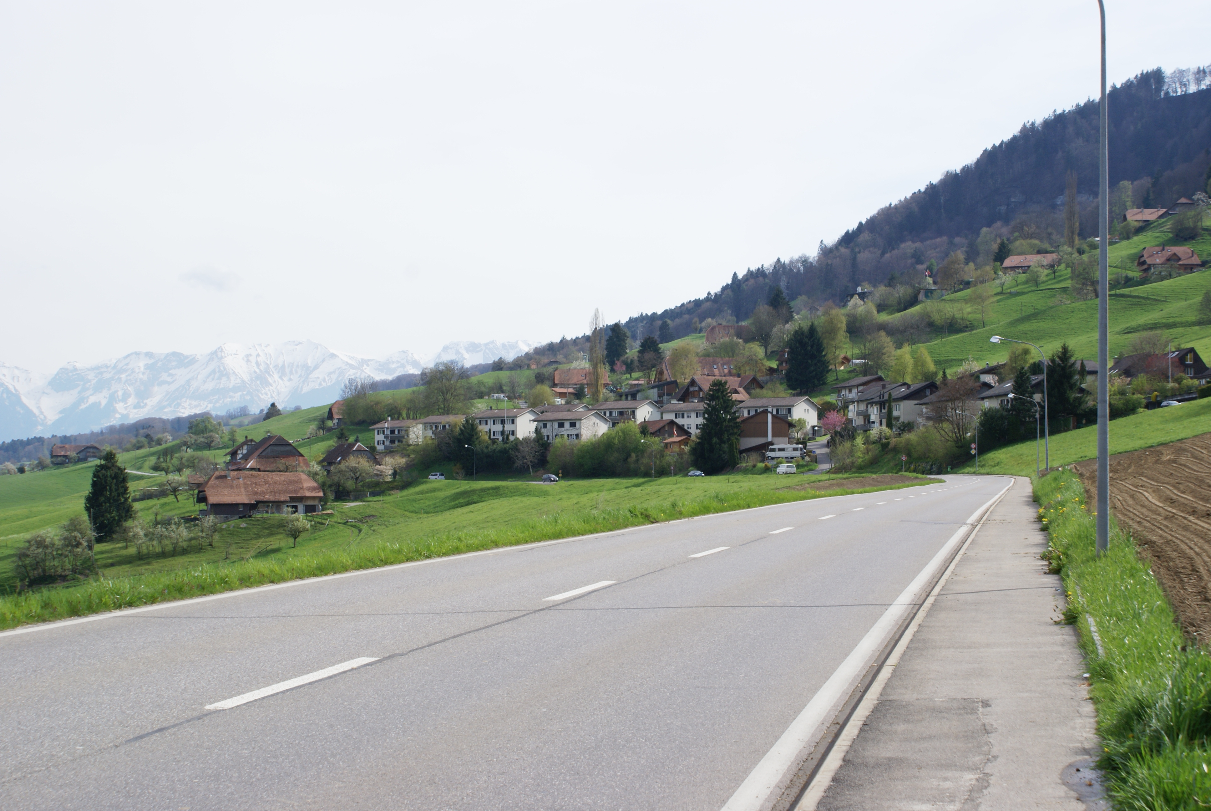 Kaufdorf, Canton of Berne, seen from the northwest.